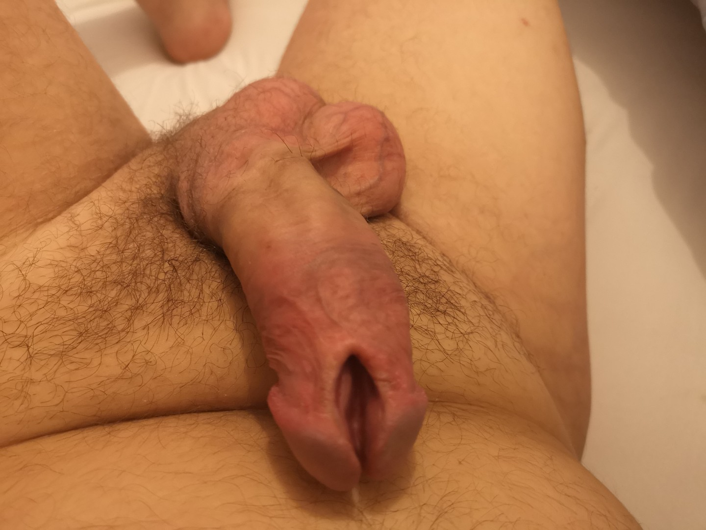 A beginning of a subincision